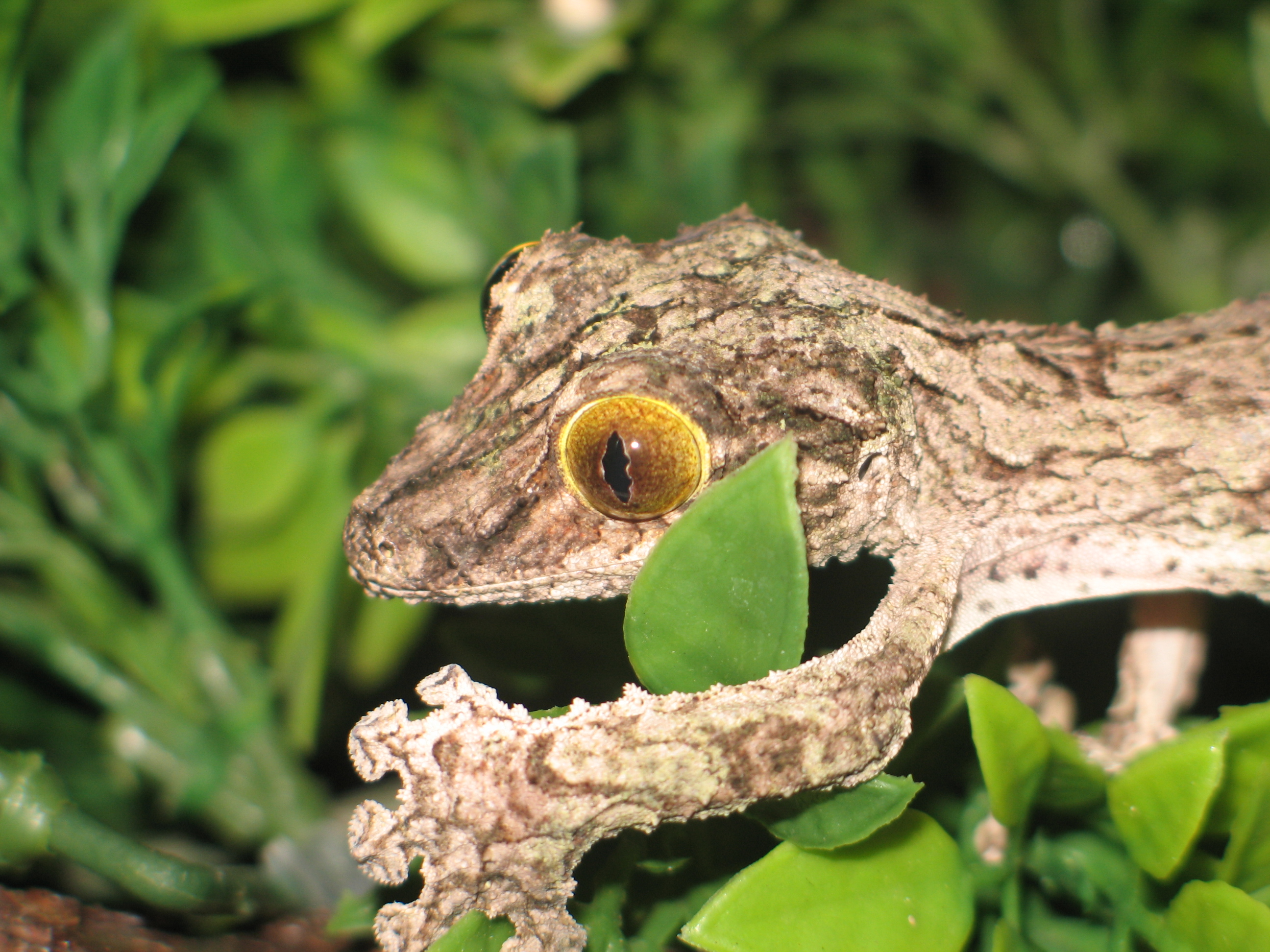 Head of a Uroplatus sameiti (gecko). personnal picture of my own animals.